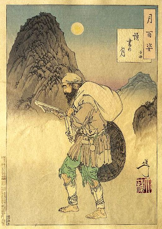 Reading by the moon (Dokusho no tsuki), depicting Zilu, a disciple of Confucius